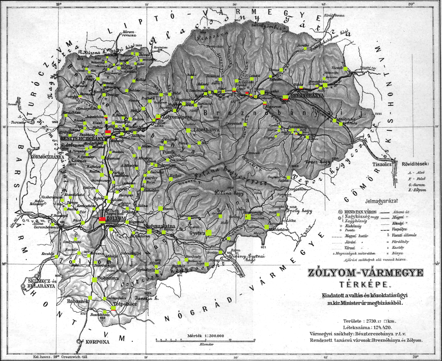 Ethnic map of the county (with data of the 1910 census). Key: light green - Slovaks; red - Hungarians; pink - Germans; black - Roma. Coloured dots in plain rectangles imply the presence of smaller minority populations (generally more than 100 people or 10%). Multicoloured rectangles imply cities and villages with multi-ethnic populations with the order of the stripes following the ethnic composition of the settlement.